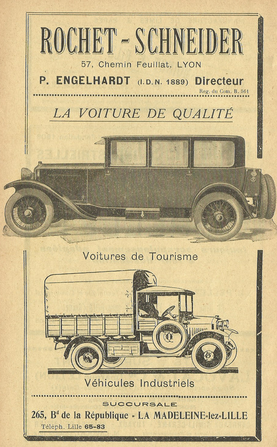 Advert for Rochet-Schneider car manufacturer, Lyon, France - 1929